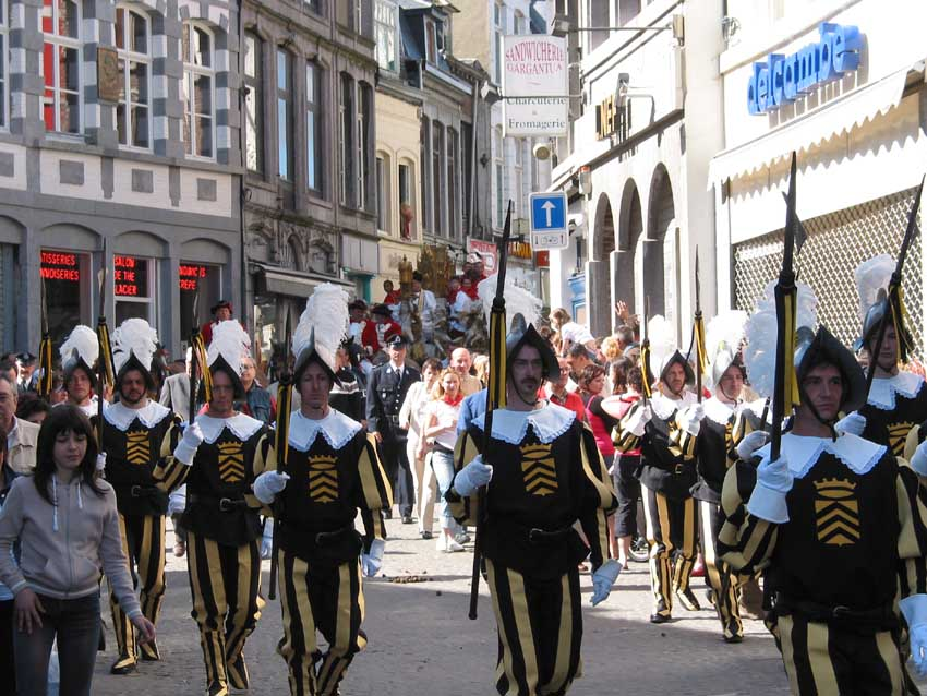 Mons (Belgium), the procession of the Golden Car.